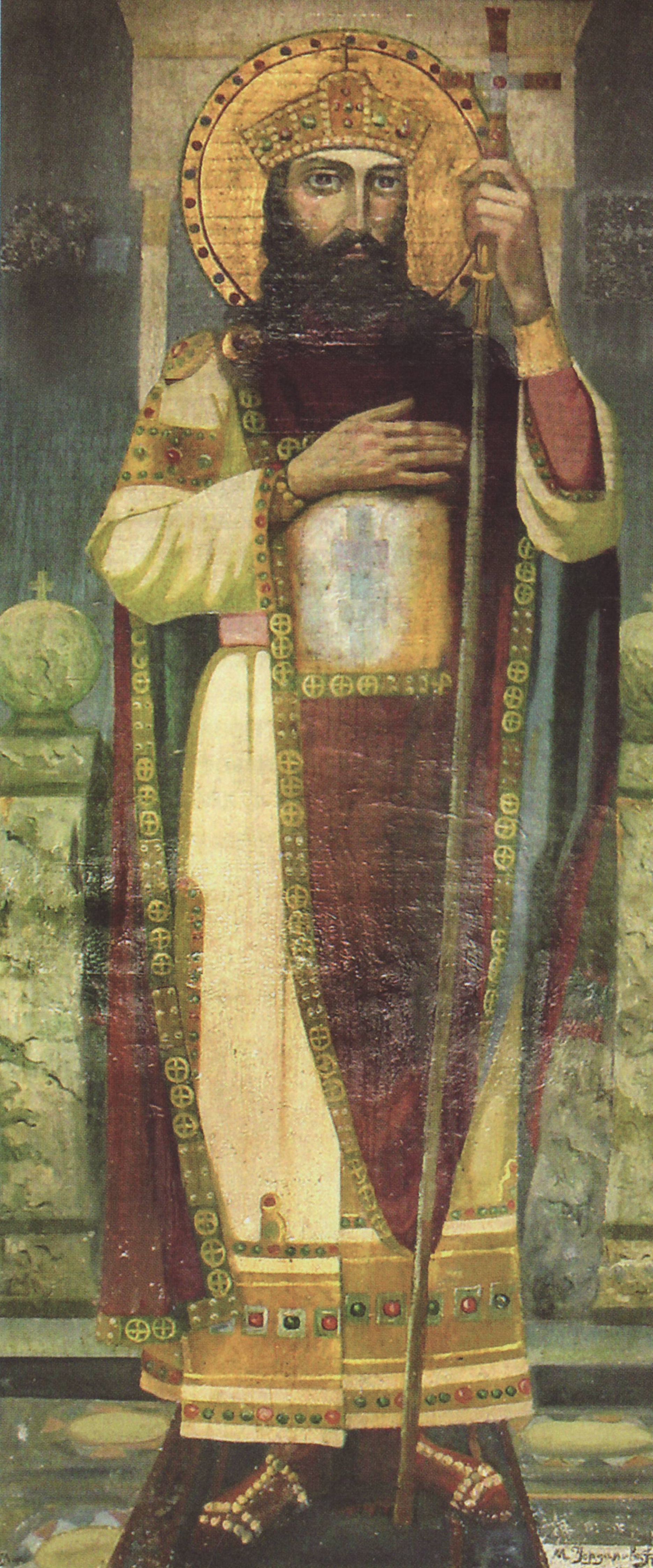 Zar Boris in Kichevo monastir